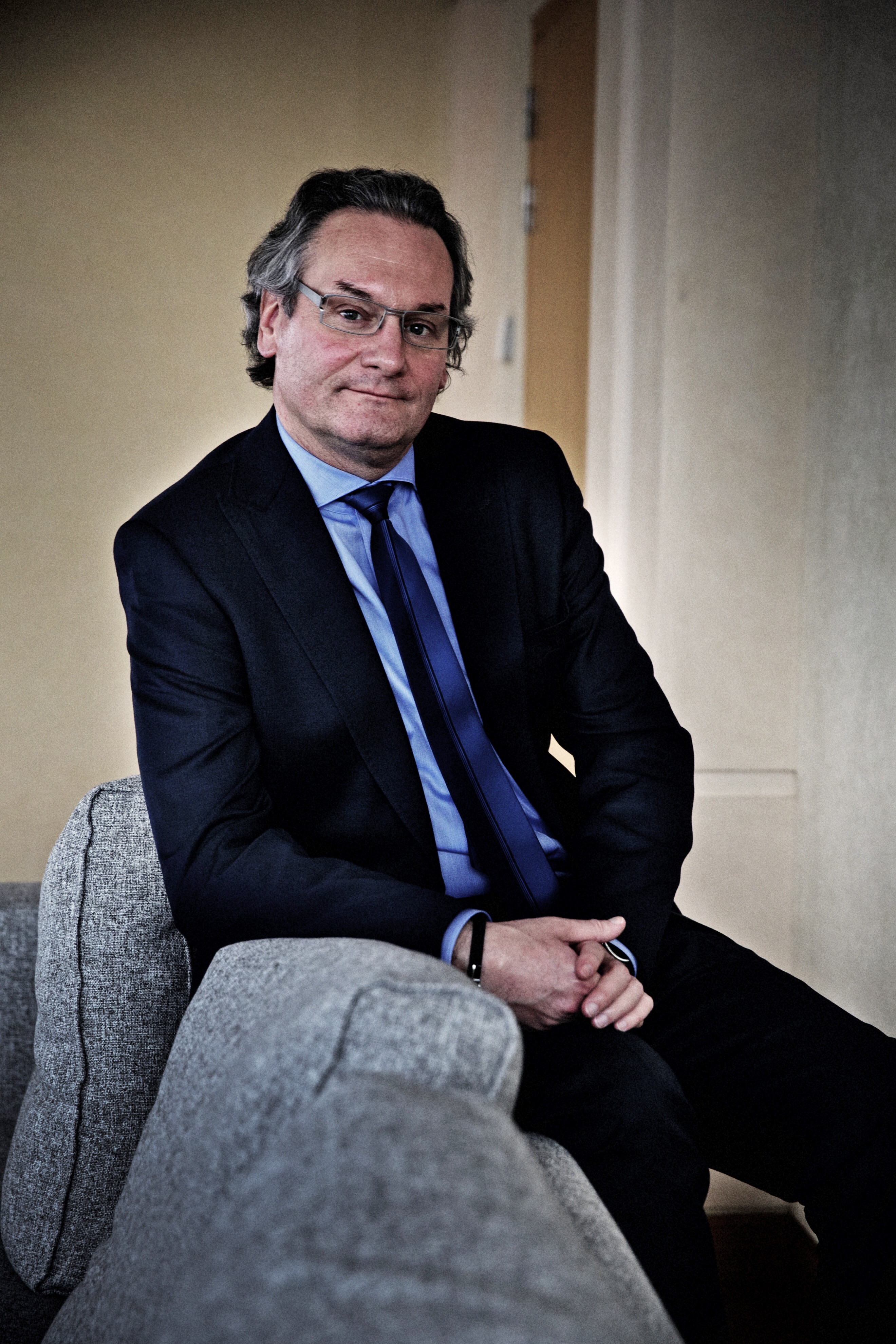 Jean-Pascal Labille